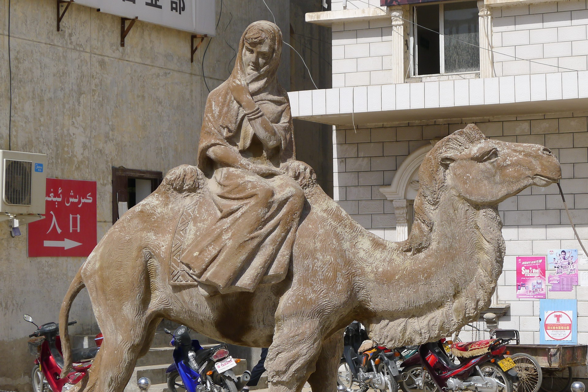 Sculpture of Ayiguli on a camel - Ayiguli is a Kazakh character in an opera made by the Communist Party of China